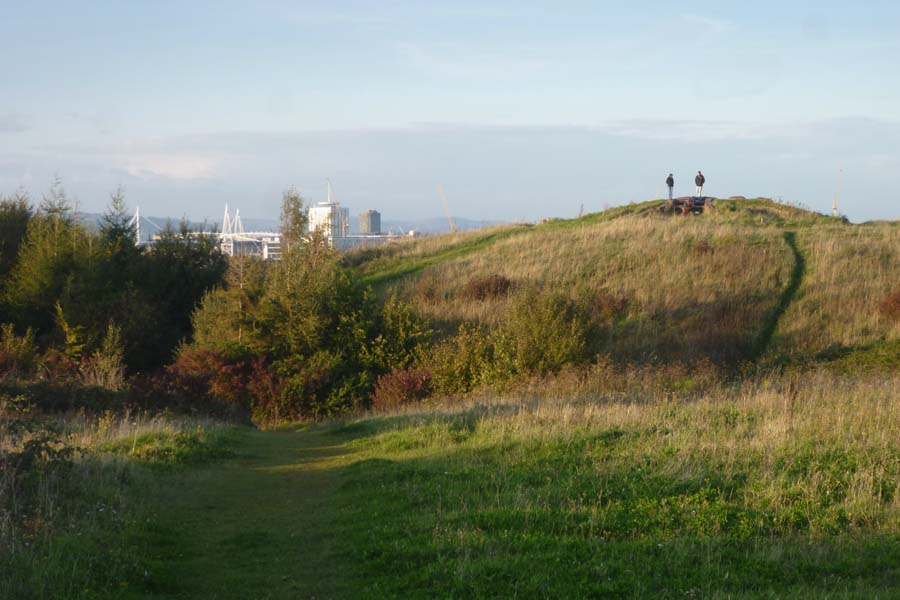 Evening sunlight catching the top of the hill (and Silent Links sculpture) in the middle of Grangemoor Park, Cardiff. Cardiff city centre visible in the distance.